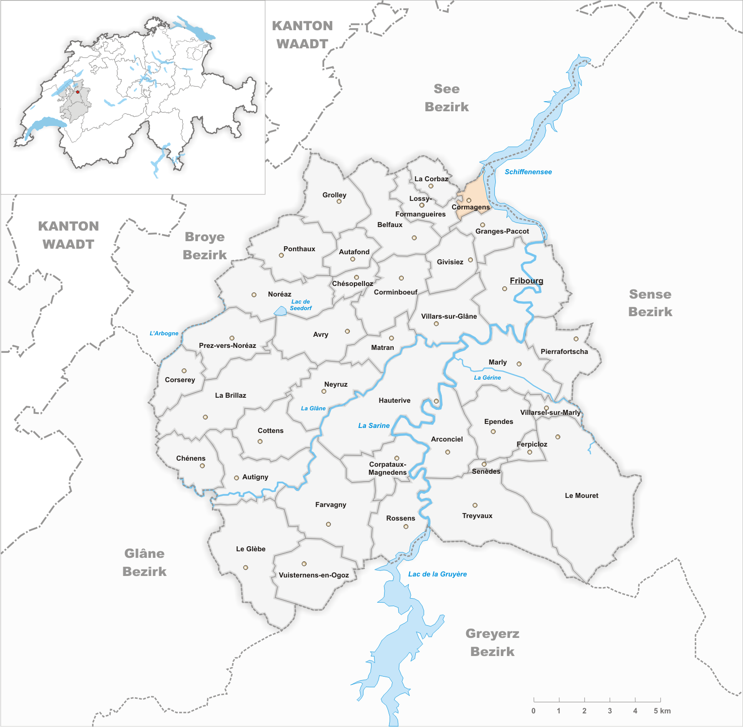 Municipality Cormagens Artist: Tschubby